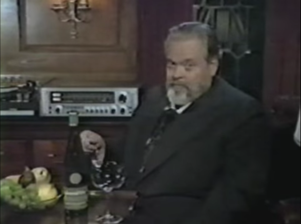 1970s wine advert